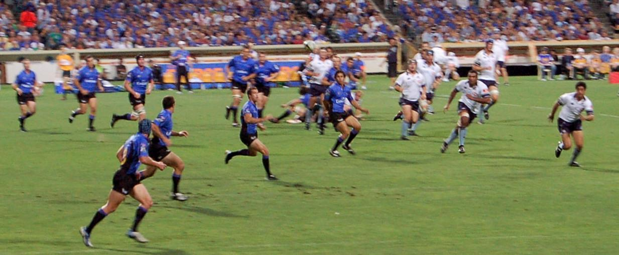 Summary General play in rugby union.